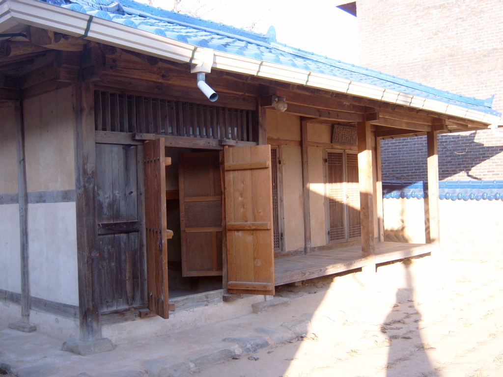 The house of Sin DongYeop’s birth.png